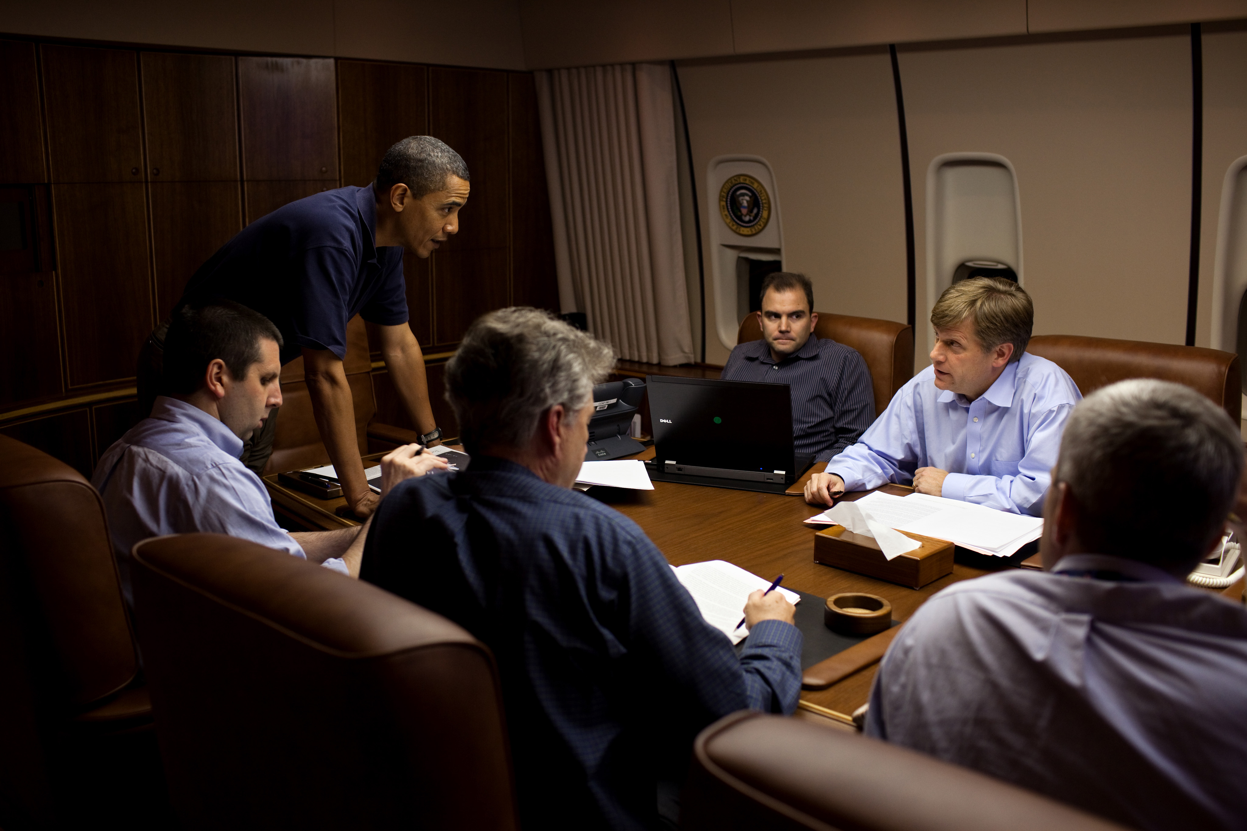 President Barack Obama is briefed by, from left, NSC Chief of Staff Mark Lippert, Former U.S. Ambassador to Russia William J. Burns, Deputy National Security Advisor for Strategic Communications Ben Rhodes, NSC Senior Director for Russian Affairs Mike McFaul, and Deputy National Security Advisor for Strategic Communications Denis McDonough, in the Conference Room aboard Air Force One, during a flight to Moscow, Russia, July 5, 2009. (Official White House Photo by Pete Souza)